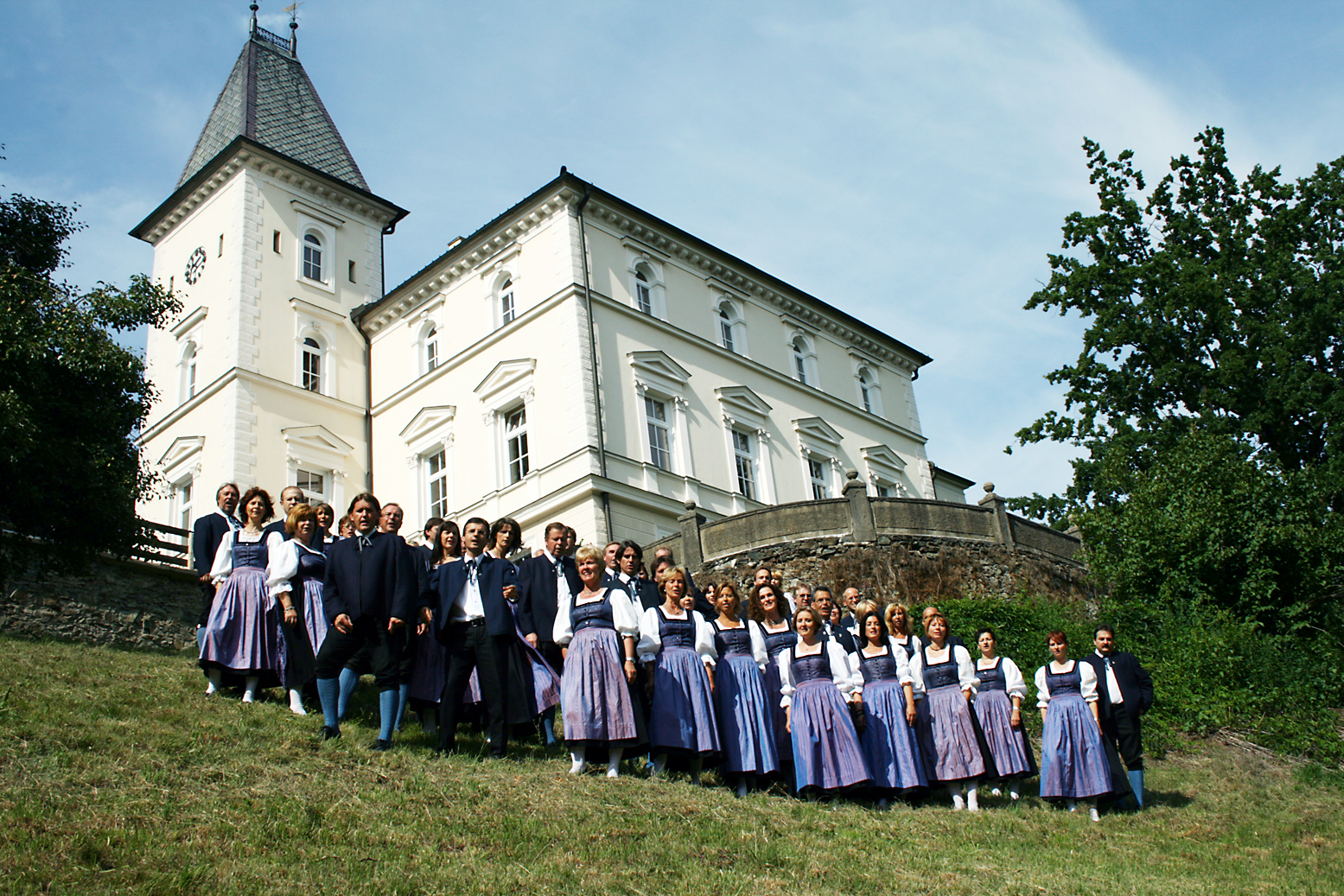 Kammerchor Klagenfurt under the guidance of Christian Liebhauser-Karl at a concert in Karastowitz castle near Klagenfurt / Carinthia / Austria / EU.